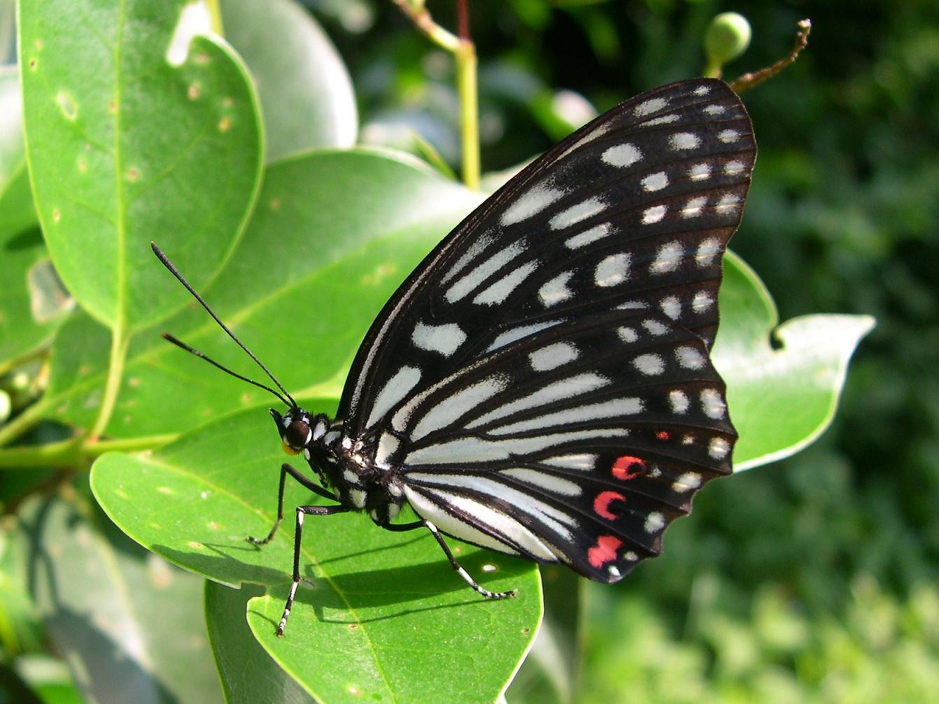 Hestina assimilis assimilis (Linnaeus, 1758) (Lepidoptera: Nymphalidae: Apaturinae). Loc: Yokohama, Kanagawa Prefecture, Japan (believed to be an artificially introduced population). ja: アカボシゴマダラ （タテハチョウ科：コムラサキ亜科） 横浜市。